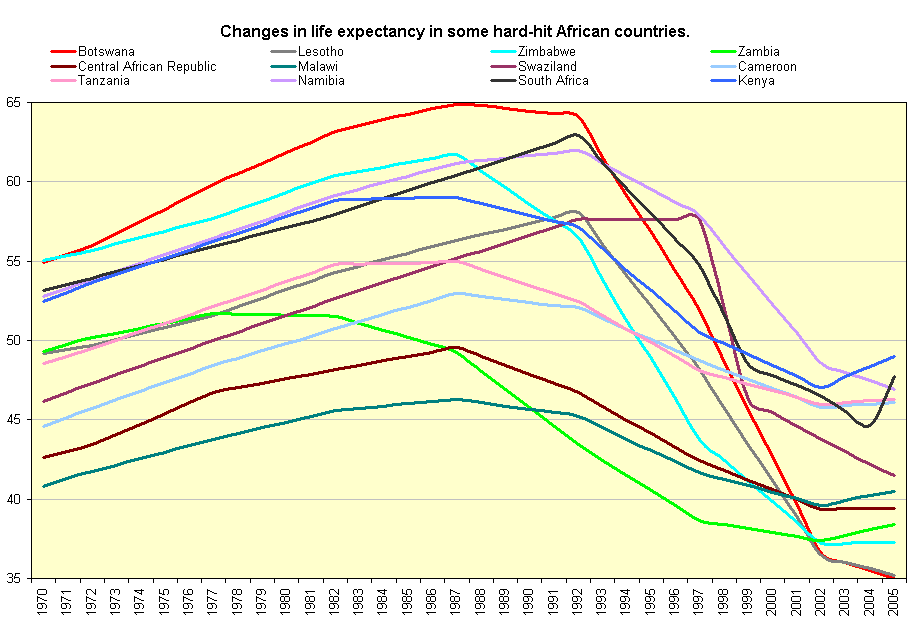 Changes in life expectancy in some hard-hit African countries.